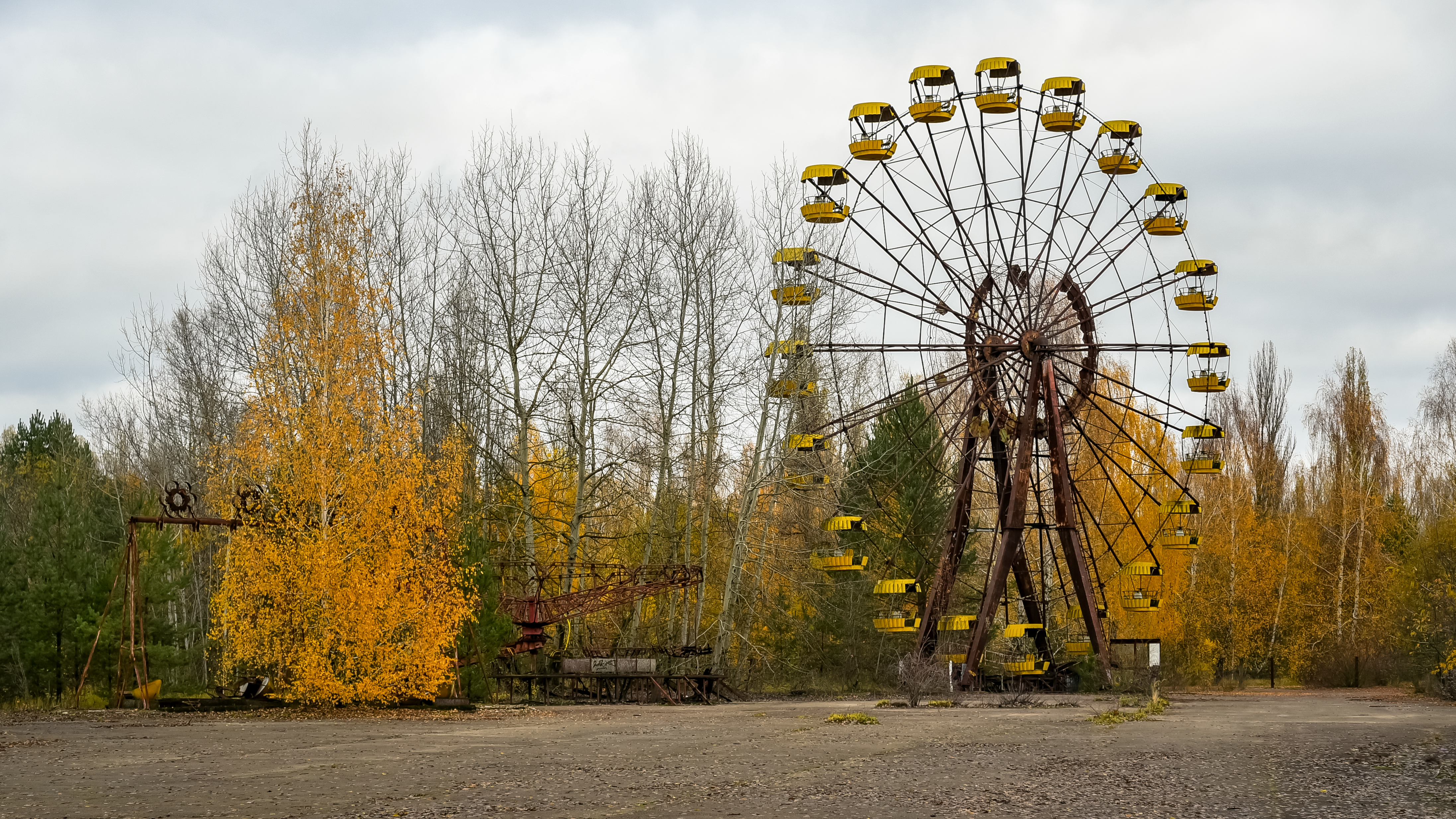 Amusement Park - Pripyat